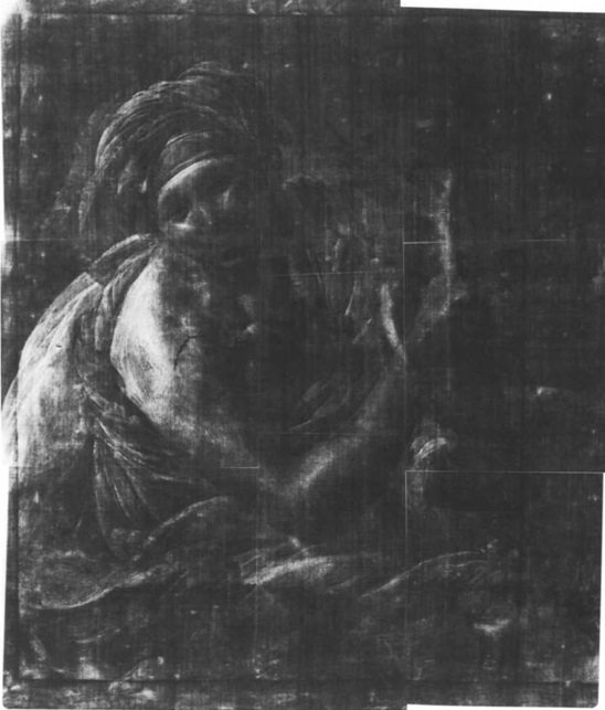 Bachante_with_an_ape,_xray